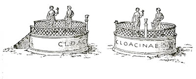 Two images of the "Shrine of Venus Cloacina" in the Forum Romanum from Hülsen, Christian (1906), The Roman Forum — Its History and Its Monuments, Ermanno Loescher & Co: Publishers to H. M. the Queen of Italy, pg 138.